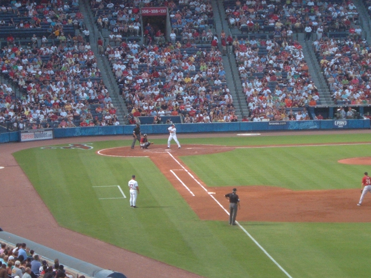 Mark Teixeira at bat for the Atlanta Braves in the August 1, 2007 game against the Houston Astros.